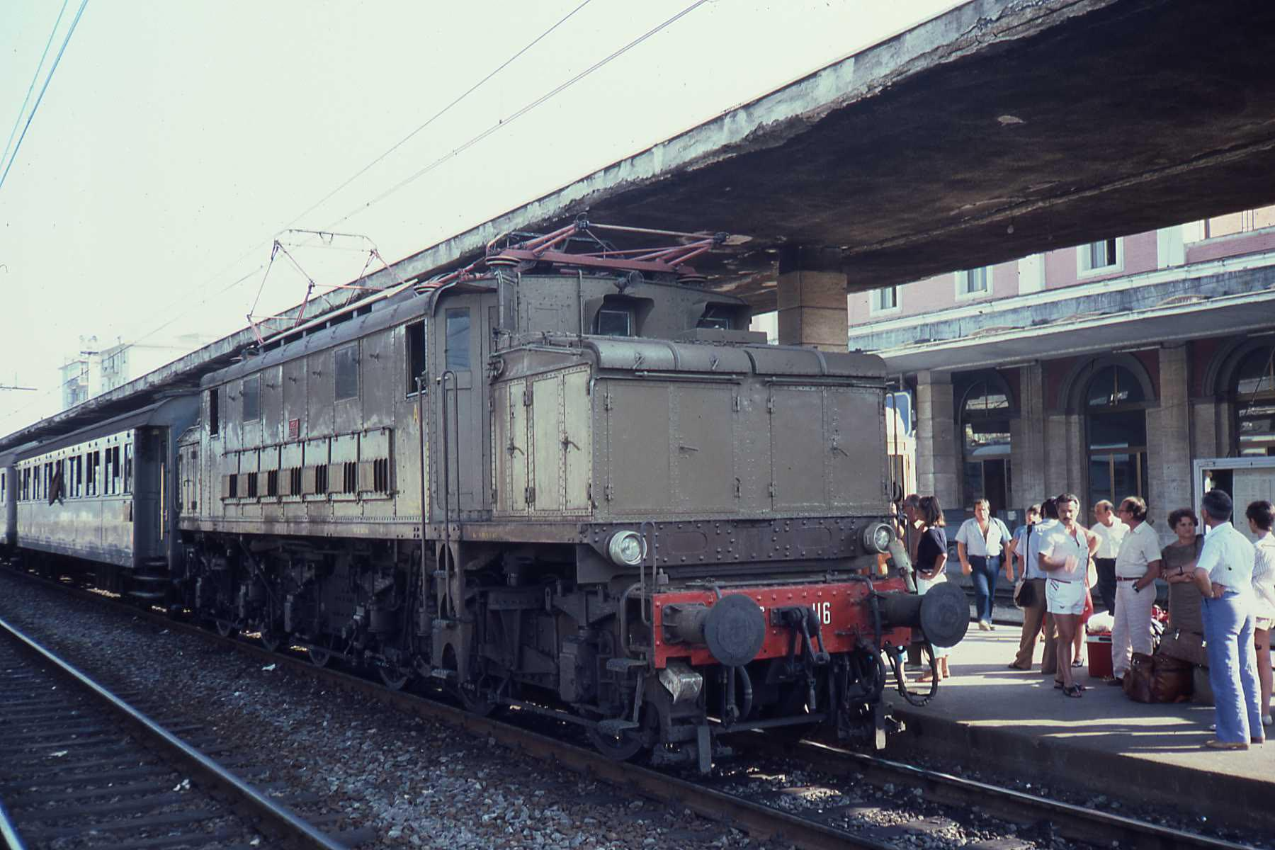 Old heavy electric loc in 1984, pulling a train with old coaches